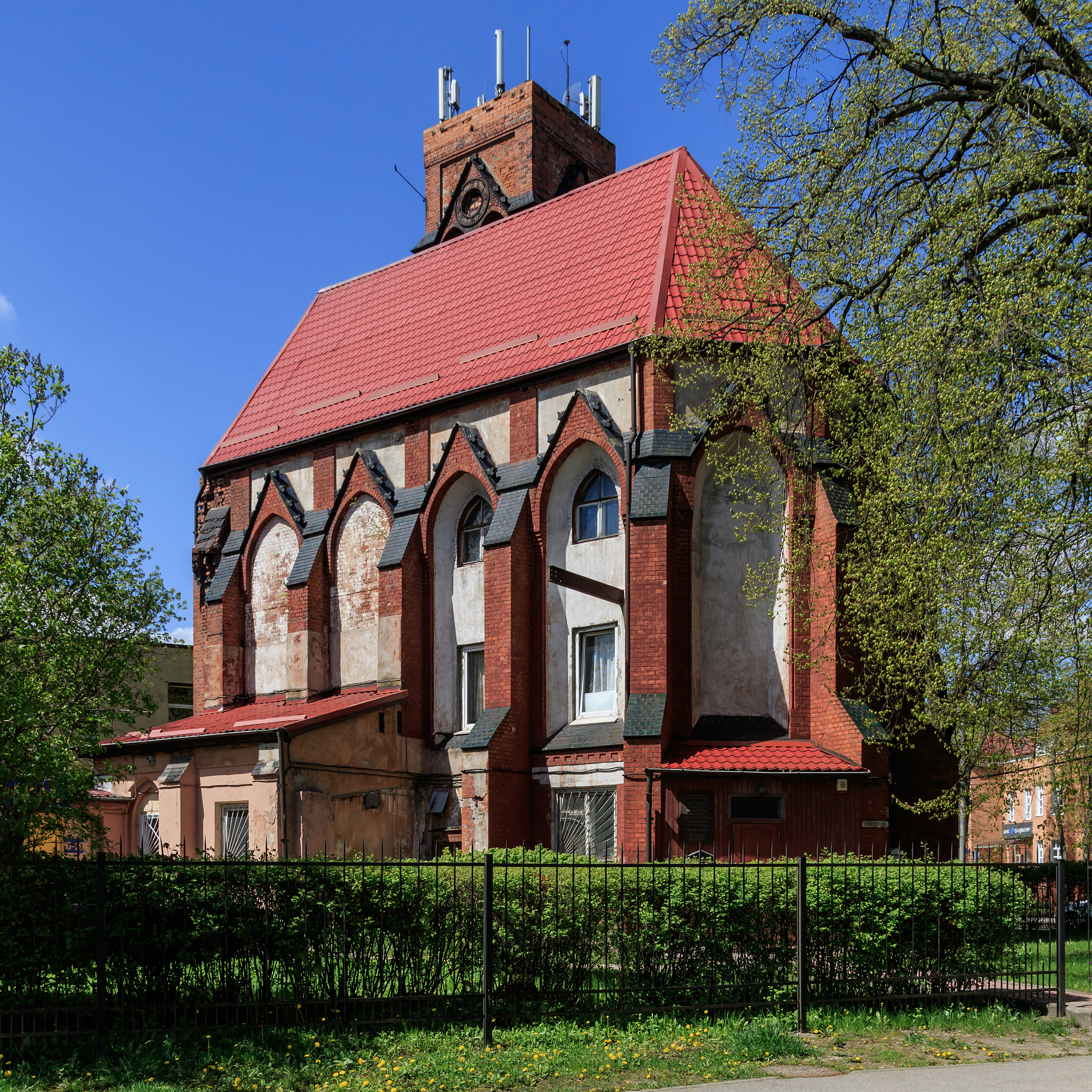 Former St. Adalbert Church in Kaliningrad formerly Königsberg, Kaliningrad Oblast (Russia).